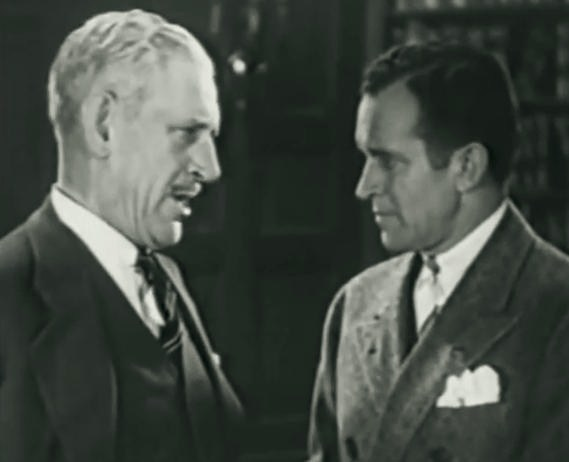 Claude King (left) and Charles Irwin in The Moonstone (1934) - cropped screenshot